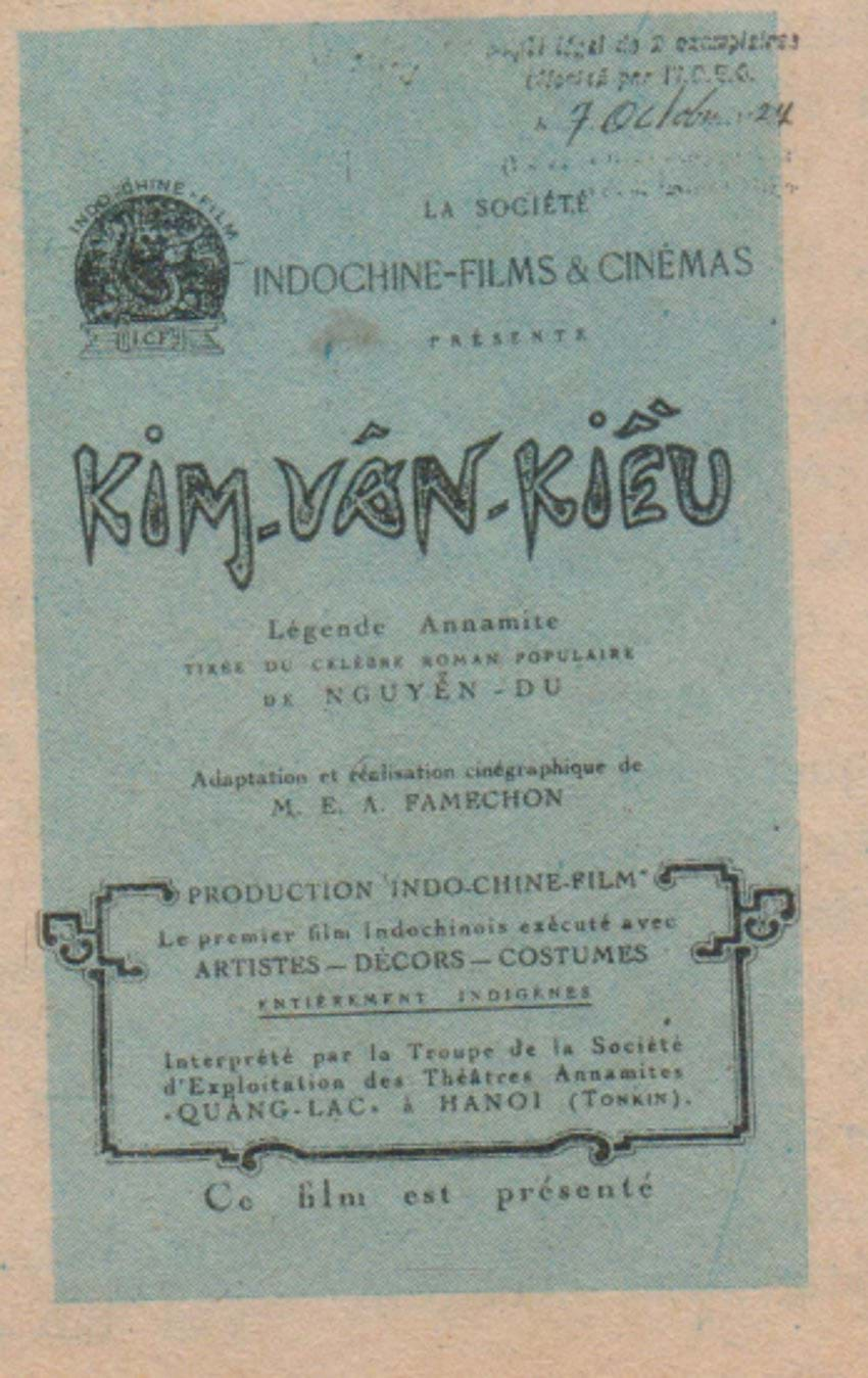 Poster for the film "Kim. Van. Kieu" (1924)